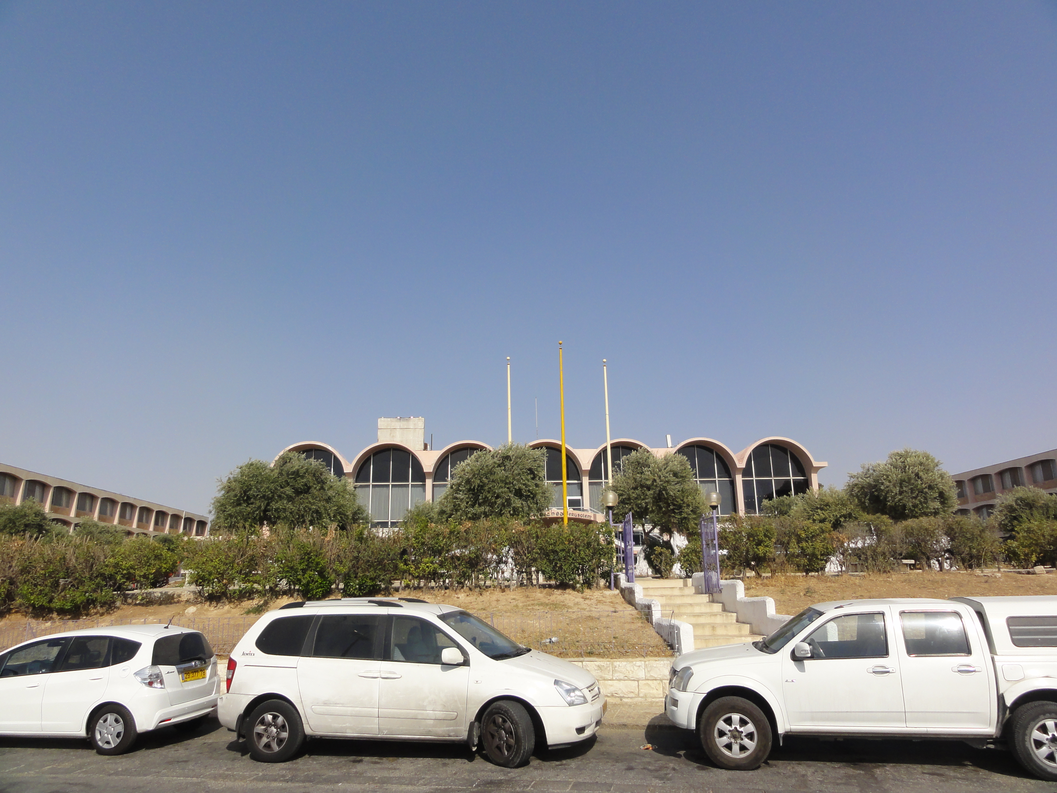 7 Arches Hotel ontop of Mount of Olives.